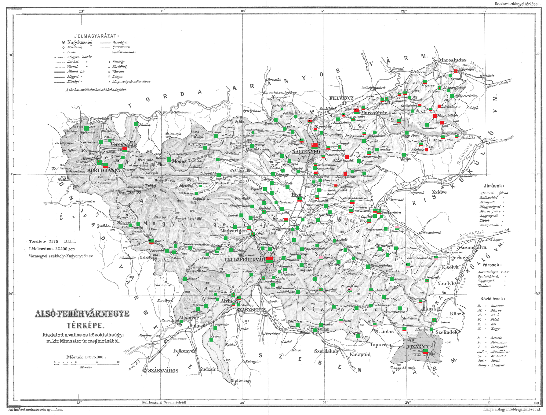 Ethnic map of the county (with data of the 1910 census). Key: dark green - Romanians; red - Hungarians; pink - Germans; black - Roma. Coloured dots in plain rectangles imply the presence of smaller minority populations (generally more than 100 people or 10%). Multicoloured rectangles imply cities and villages with multi-ethnic populations with the order of the stripes following the ethnic composition of the settlement.